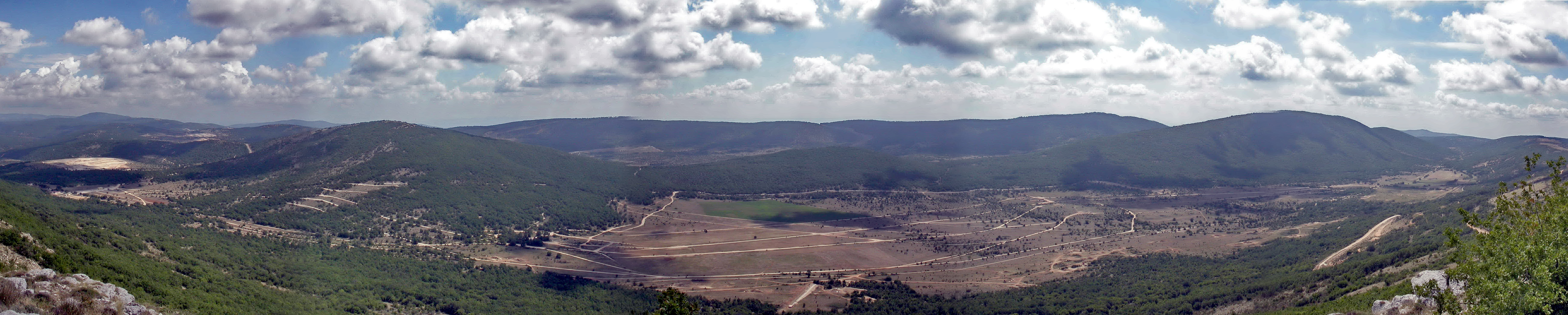 Canjuers : Lagne place